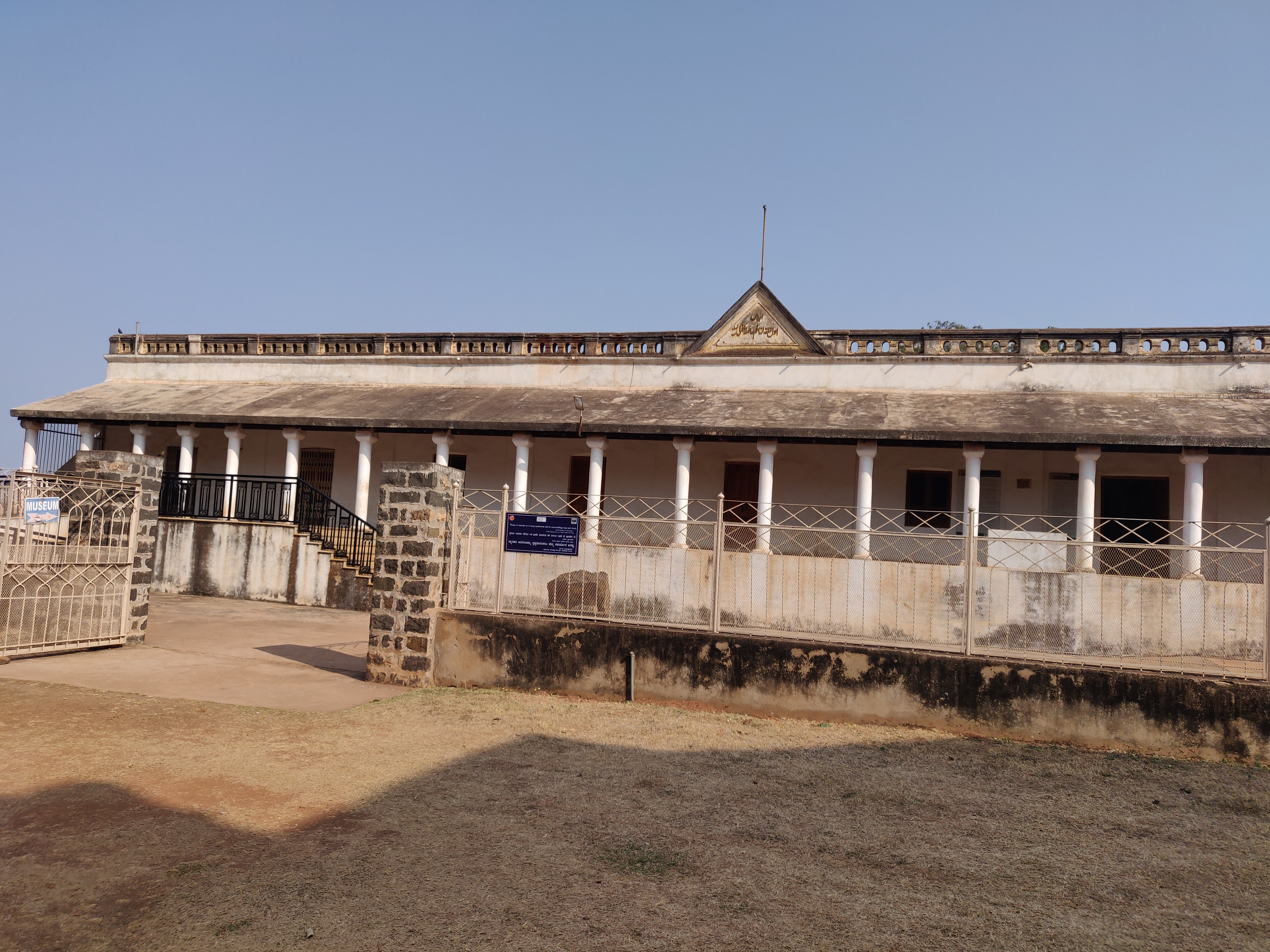 Pictures clicked in Bidar fort. Archeological museum inside bidar fort